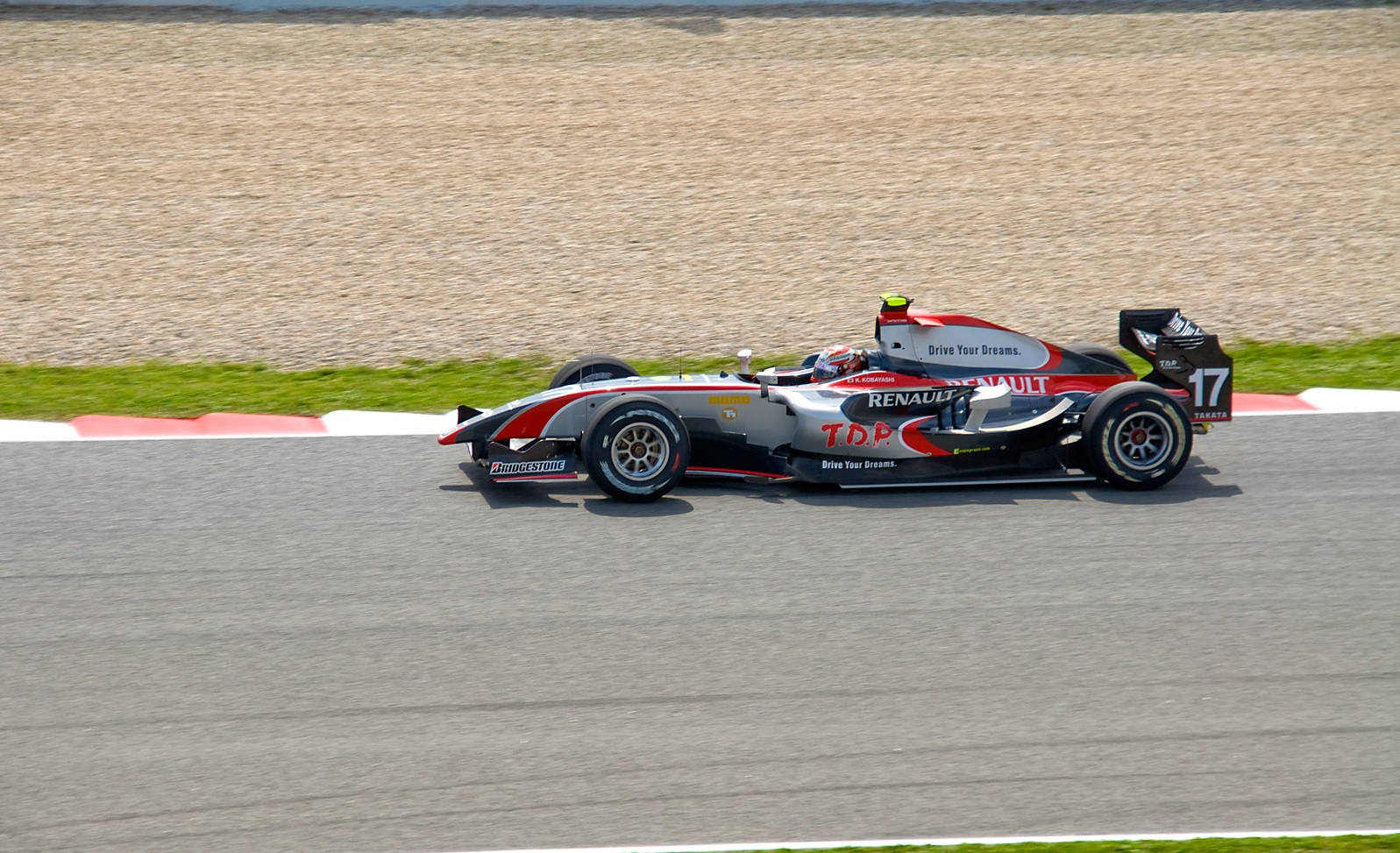 Kamui Kobayashi driving for DAMS at the Catalunya round of the 2009 GP2 Series season.